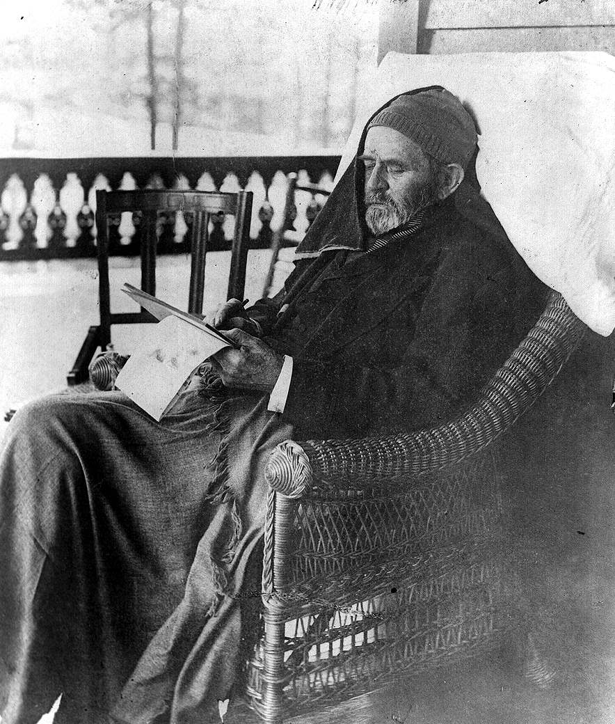 Ulysses Grant, three-quarter length portrait, seated in rattan chair, writing memoirs, at Mount McGregor near Saratoga Springs, N.Y.